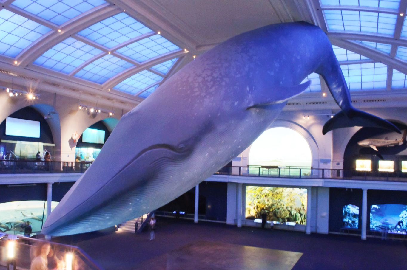 The blue whale is the largest animal that ever lived; the largest specimen verified was at 30 meters (100 feet), and the average blue whale can easily weigh 400,000 pounds (or 24 African elephants). As blue whales live solitary lives in the open ocean, people still know very little about them. This model of a blue whale is the centerpiece of the Marine Life Hall. The lighting here is very dim - only a long exposure, with the camera steadied on the handrails, could come up with this shot, even though I couldn't do much about the mother and daughter in the foreground. American Museum of Natural History is the largest museum of its kind, and alongside the Metropolitan Museum of Art, represents the ultimate in New York City museum experience.